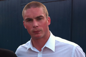 Photo taken by myself of Richard Brodie following the Tamworth Vs. Crawley Town game on April 9 2011 at The Lamb Ground.